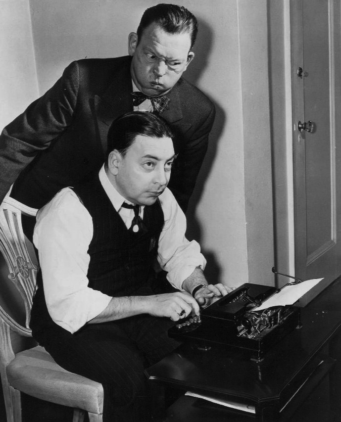 Publicity photo of comedian Fred Allen and columnist Earl Wilson to promote Allen's radio show, which they were the sponsor of. Wilson was making a guest appearance on the program to promote his new book.